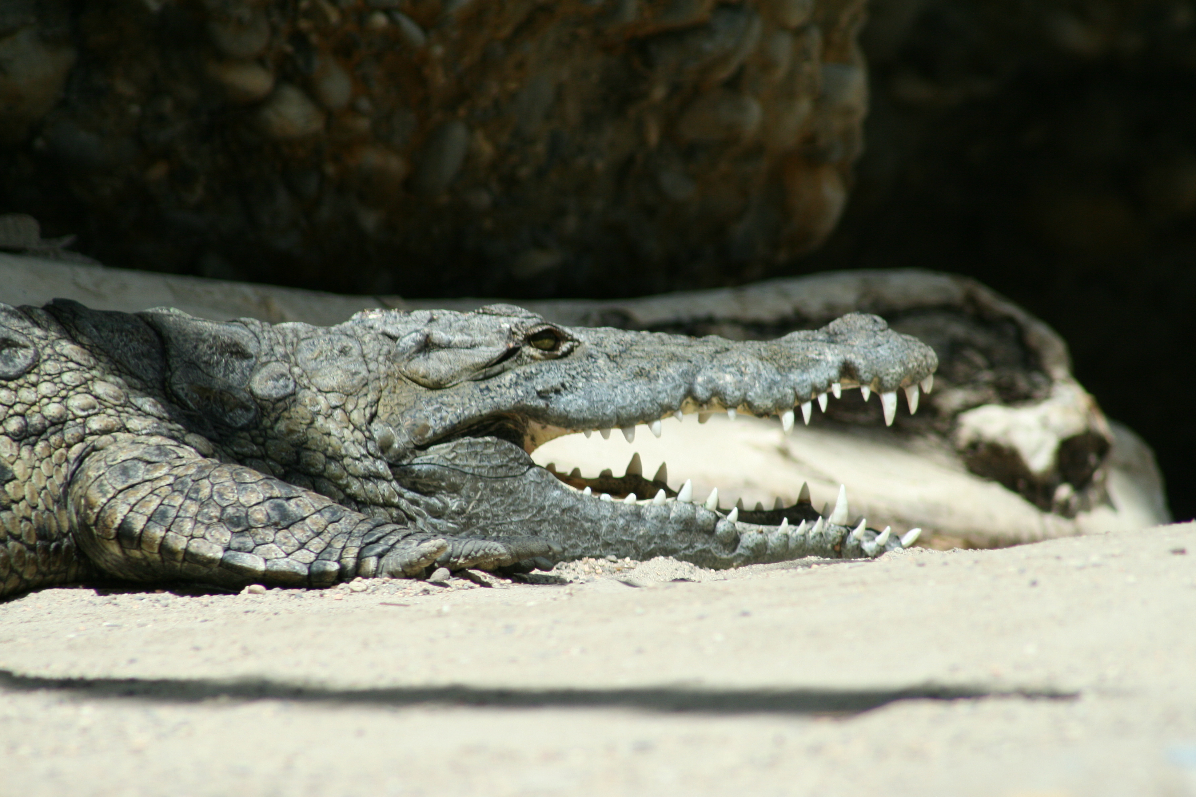 Nilkrokodil (Crocodylus niloticus), fotografiert im Zoo Basel (Schweiz). Nile crocodile, photograph taken in Zoo Basel (Switzerland)